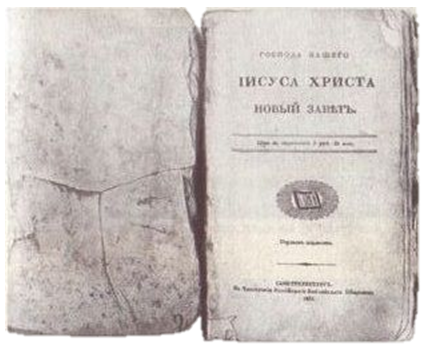 The New Testament given to Dostoyevsky in January 1850 shortly before his imprisonment in Siberia.